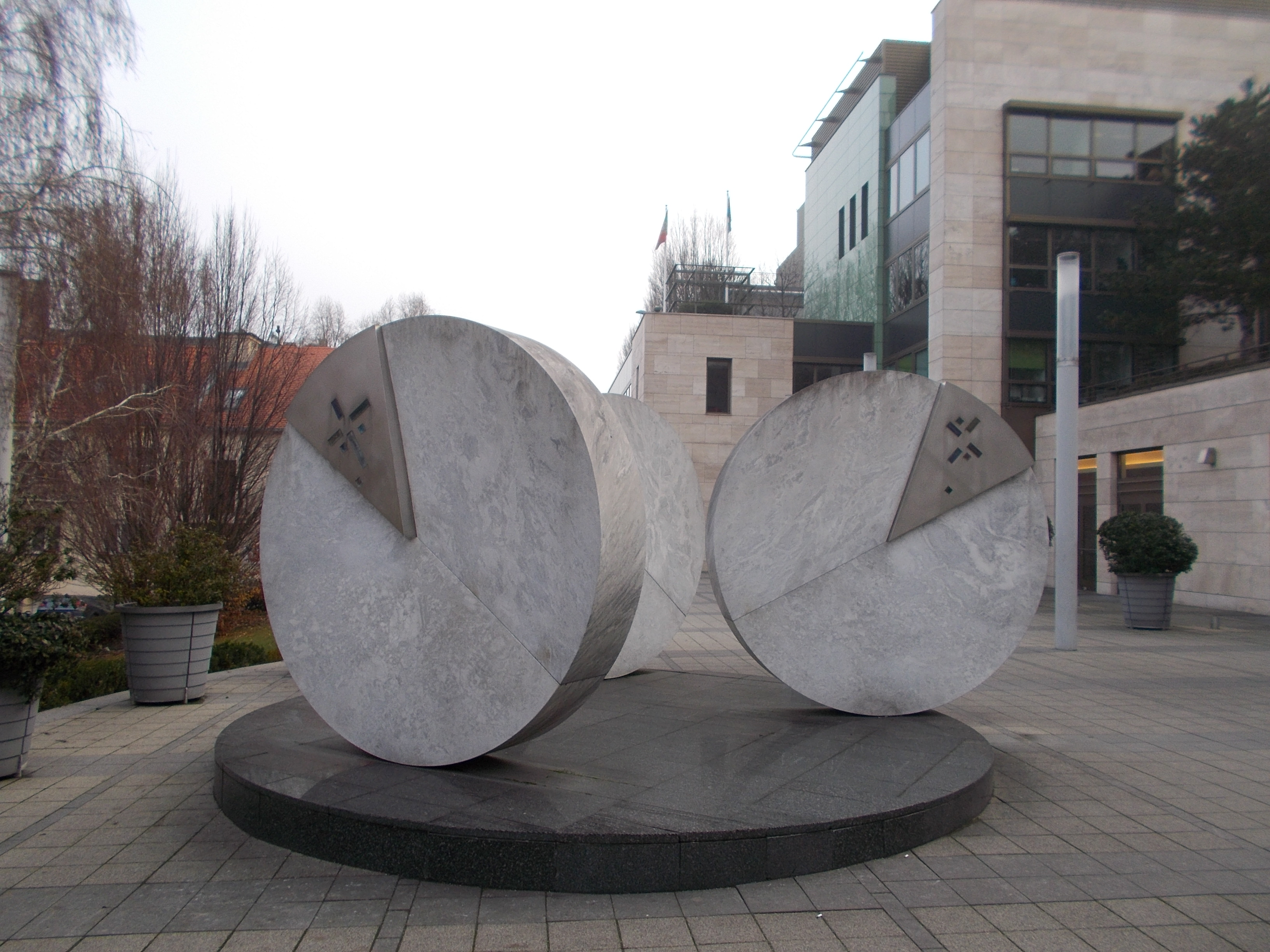 MOM Park Shopping Center inner garden office buildings and dwelling estates. Three oval structures symbolizing wheels of watch, because former 'MOM' mechanical (optical) company worked here. A work by Gyula Gulyás in 2001. Titled as 'Message for the Future' - Alkotás street-Csörsz street-Dolgos street, Hegyvidék, district XII, Budapest, Hungary Üzenet a jövőnek. Gulyás Gyula szobrászművész, 2001. Absztrakt, krómacél, mészkő, márvány, üveg.